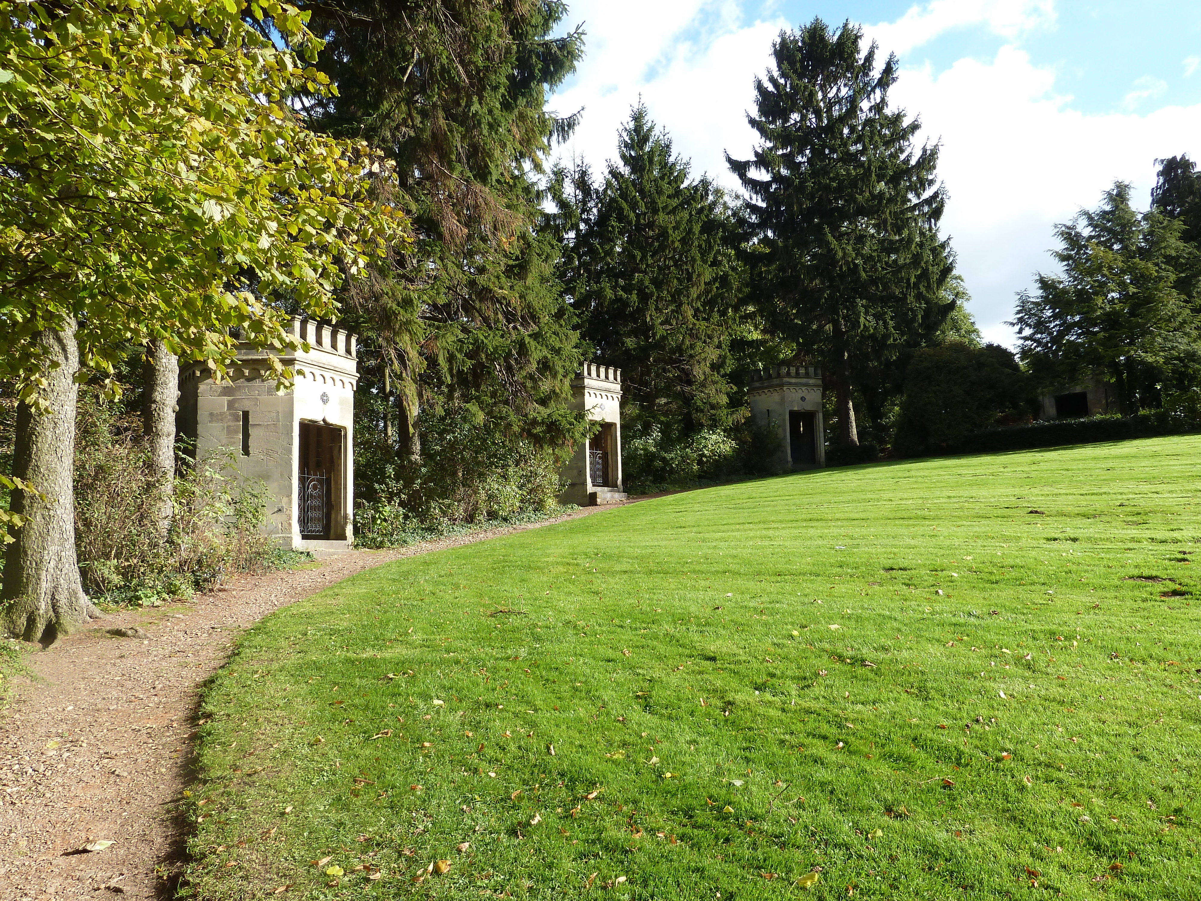 Kruiswegstaties, Cadier en Keer, Limburg, the Netherlands